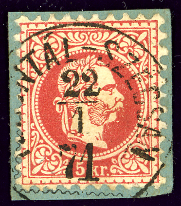 Austrian KK 5 kreuzer stamp, issue 1867, cancelled at TORONTÁL-SZECSAN in January 1871, Banat, Serbia. Müller type F140, 60 points